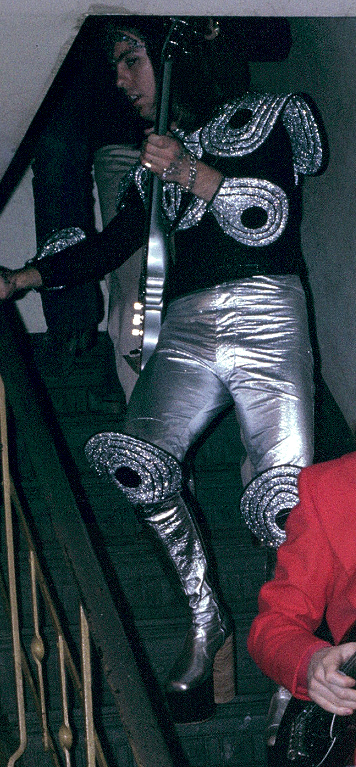 Noddy Holder, English rock musician of the band Slade